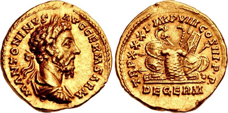 Marcus Aurelius. AD 161-180. AV Aureus (20mm, 7.62 g, 12h). Rome mint. Struck AD 176-177. M ANTONINVS AVG GERM SARM, laureate, draped, and cuirassed bust right / TR P XXXI IMP VIII COS III P P, DE GERM in exergue, pile of arms and armor. RIC III 362; MIR 18, 368-15/37; Calicó 1845 (this coin illustrated); BMCRE 737; Biaggi –. Good VF. Ex Continental Collection; Numismatic Fine Arts XXIX (13 August 1992), lot 379; Numismatic Fine Arts XXVII (5 December 1991), lot 134; Numismatic Fine Arts FPL 35 (Summer 1988), no 130. It was a great misfortune that Rome’s most philosophically-minded emperor spent much of his reign preoccupied with the practical affairs of waging war. The Parthian War (AD 161-166) demanded that many troops stationed in the northern provinces be moved east. The Marcomanni, Quadi, and Sarmatiae all quickly capitalized on the decreased military presence and swarmed southward, even posing a threat to Italy. Marcus took personal command in AD 167 and managed to establish peace through a series of hard-fought victories, which this scarce issue commemorates. It was during these campaigns that Marcus began writing his famous philosophical work, Meditations.